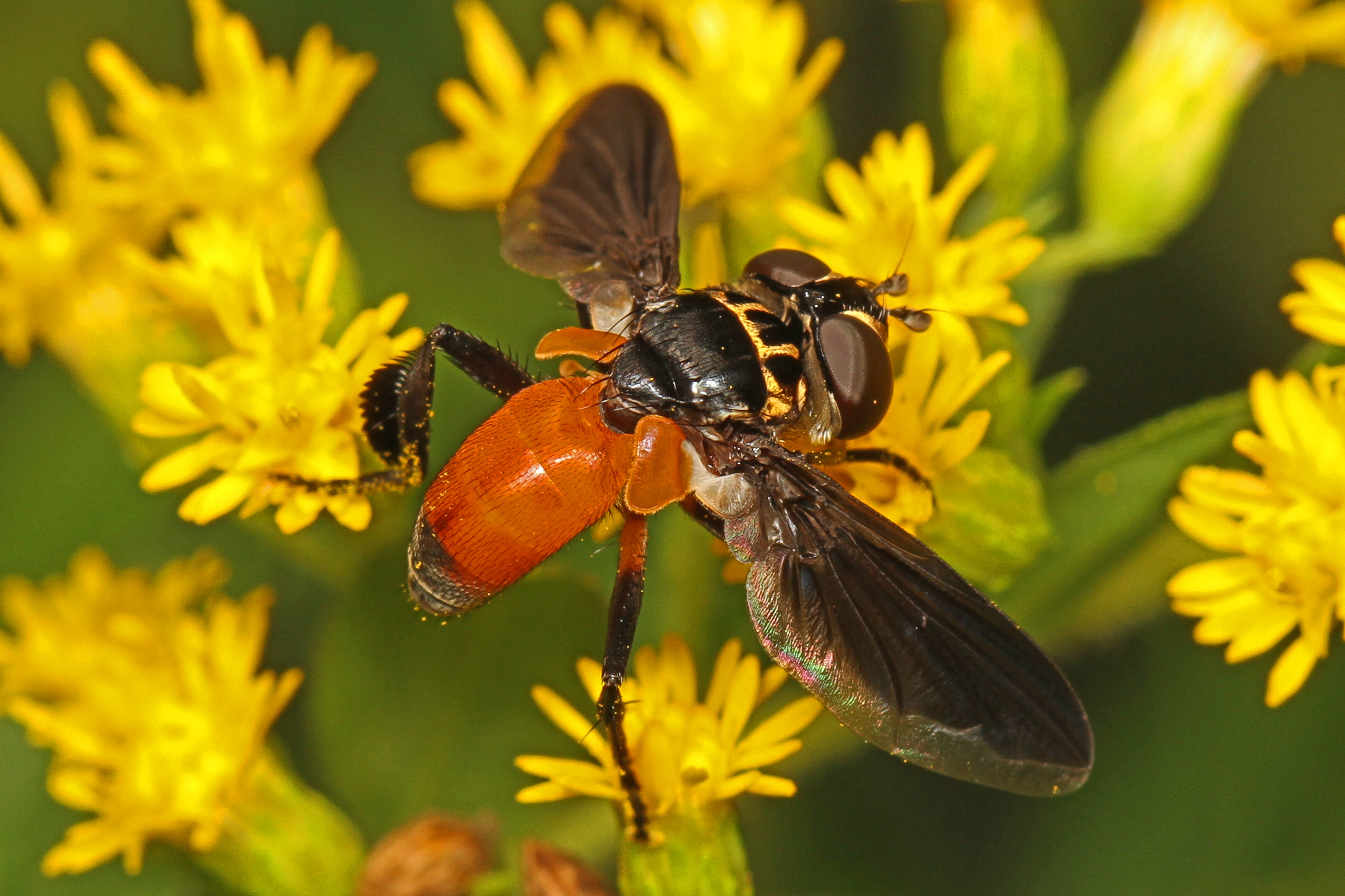 Feather-legged Fly - Trichopoda pennipes, Julie Metz Wetlands, Woodbridge, Virginia. showing the feathery leg that gives it its name. HFDF!